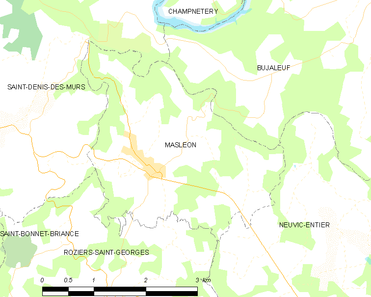 Map of French municipality Masléon